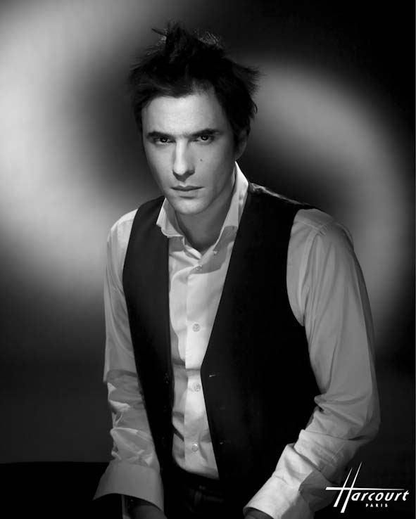 Samuel Benchetrit photographed by Studio Harcourt Paris